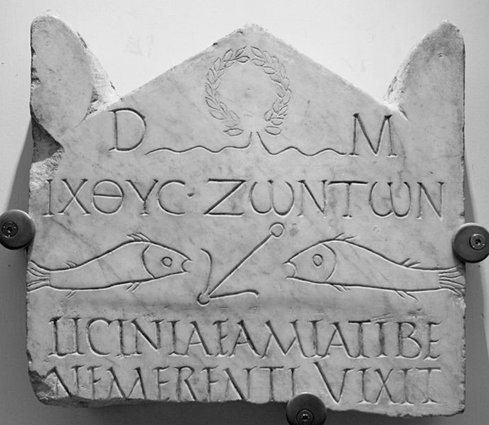 Funerary stele of Licinia Amias, one of the most ancient Christian inscriptions. Upper tier: dedication to the Dis Manibus and Christian motto in Greek letters ΙΧΘΥC ΖΩΝΤΩΝ / Ikhthus zōntōn ("fish of the living"); middle tier: depiction of fish and an anchor; lower tier: Latin inscription “LICINIAE AMIATI BE / NE MERENTI VIXIT”. Marble, early 3rd century CE. From the area of the Vatican necropolis, Rome.